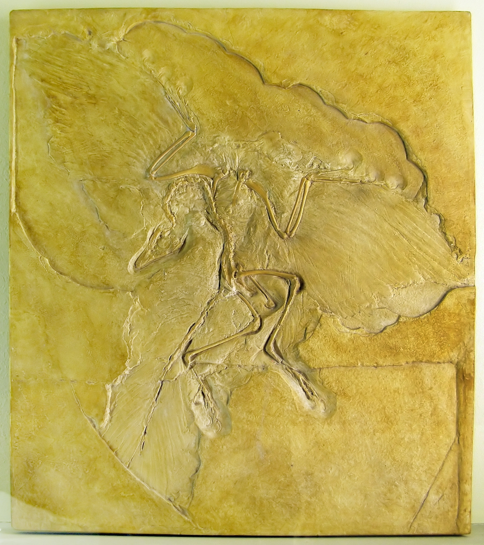 "Berliner Exemplar" of Archaeopteryx, Eichstätt. Museum für Naturkunde (Berlin).